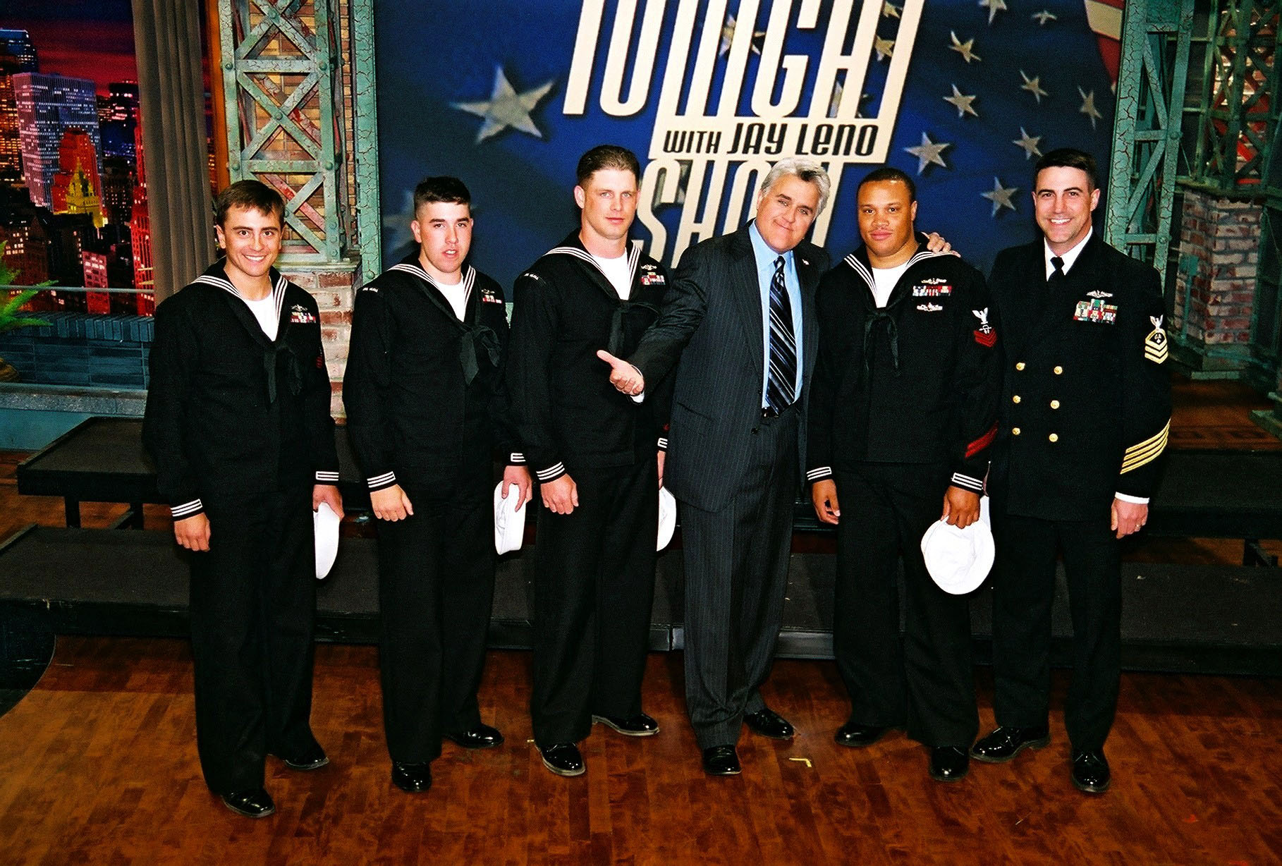 051123-N-0000X-001 Burbank, Calif. (Nov. 23, 2005) – Five U.S. Navy submariners, assigned to the Los Angeles-class fast attack submarine USS Helena (SSN 725), pose for a photograph with “The Tonight Show” host, Jay Leno, during a special tribute to military members. The special was taped Nov. 23 and aired on Thanksgiving. U.S. Navy photo (RELEASED)